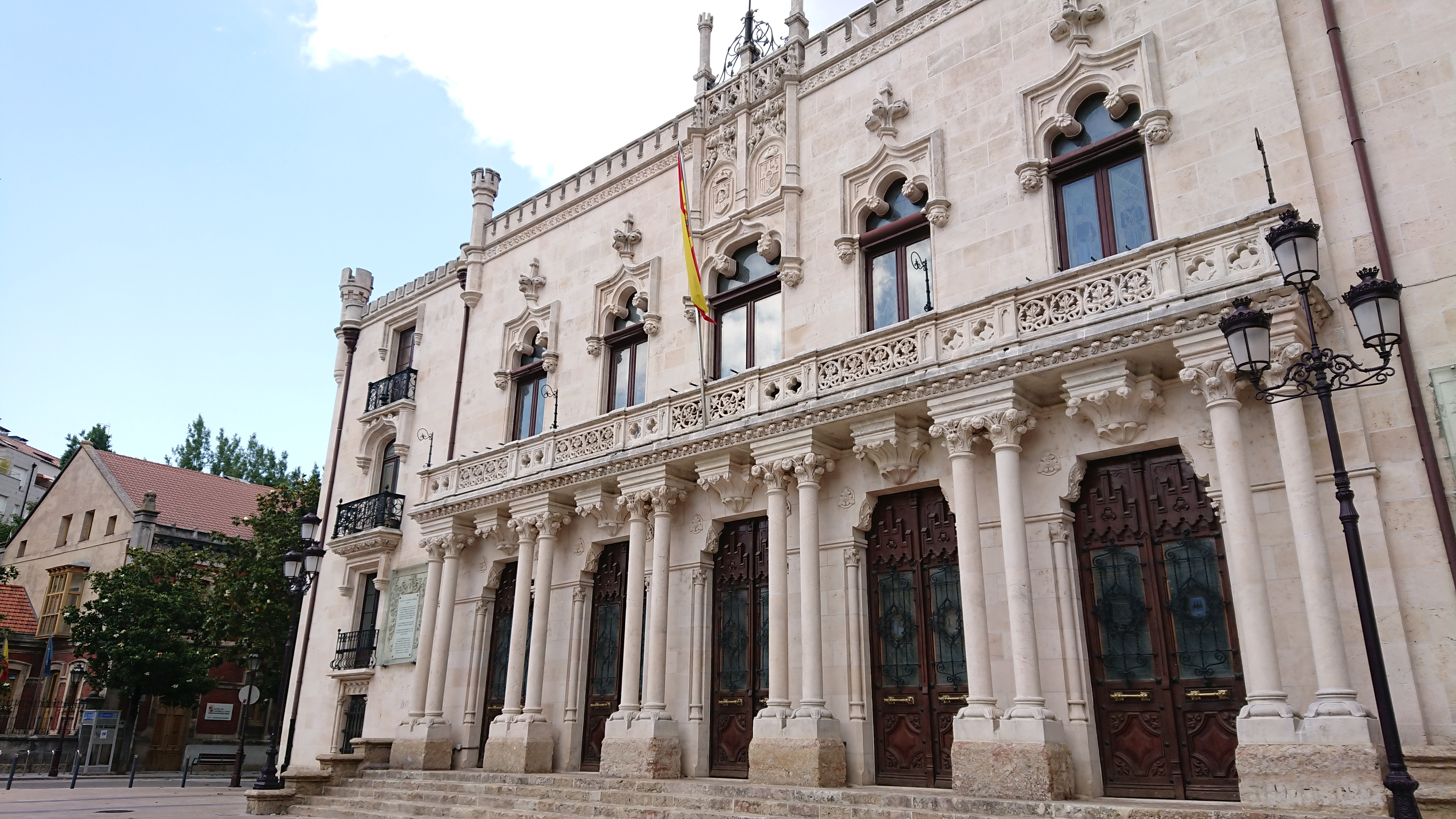 Palacio de la Capitanía General, Burgos (Spain)